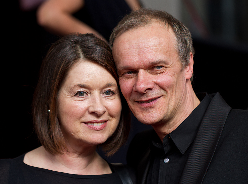 Franziska Walser and Edgar Selge